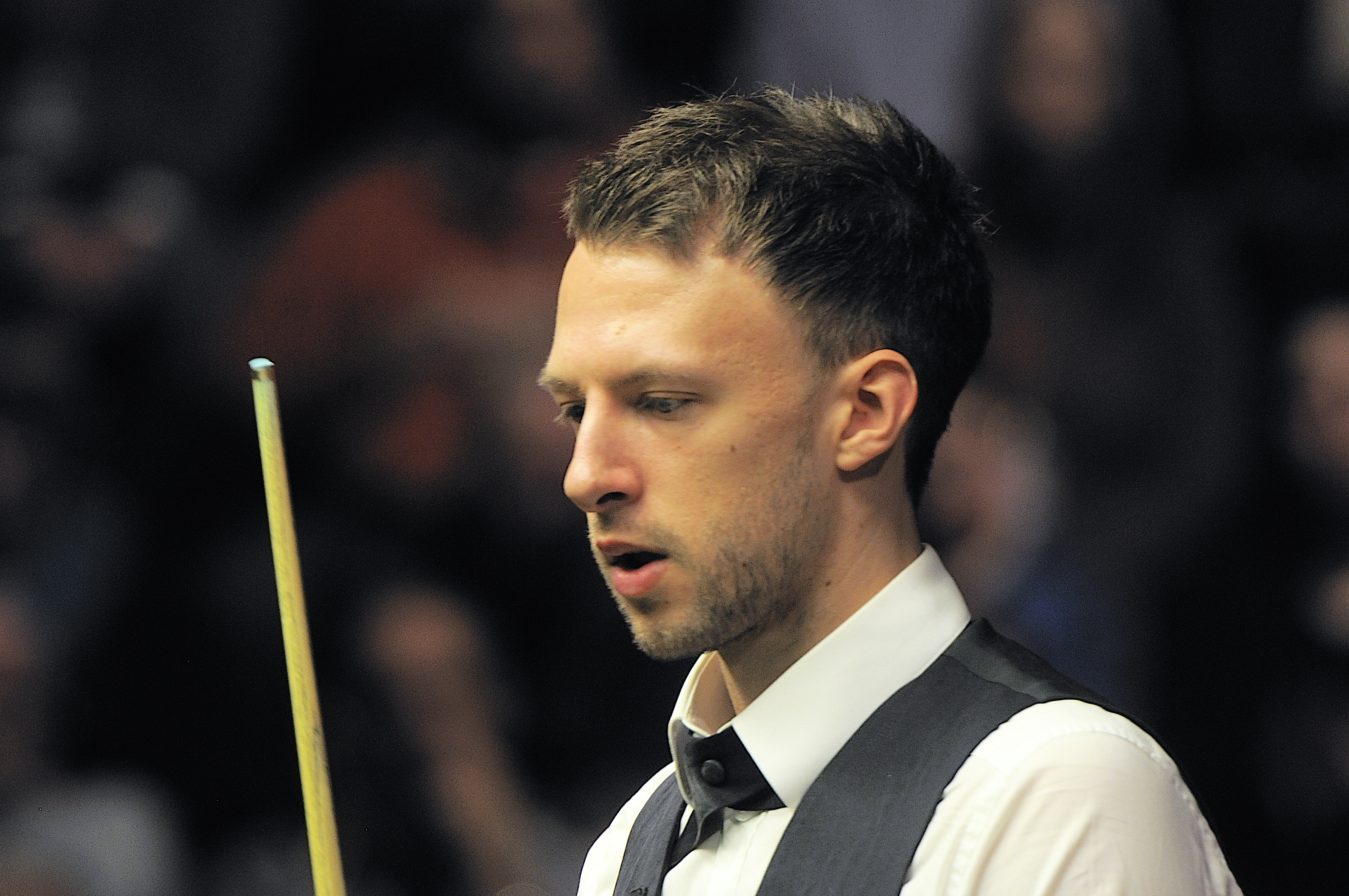 Picture taken in Berlin during the Snooker German Masters in 2014. Judd Trump.